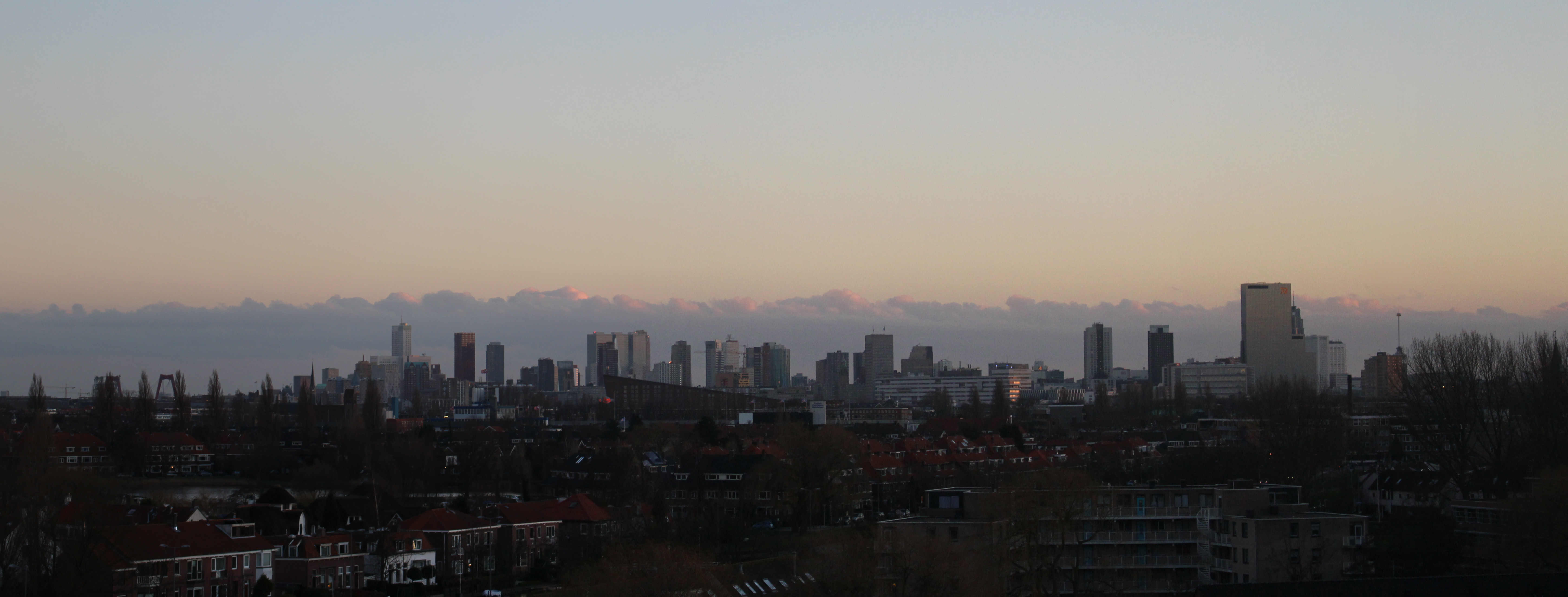 Rotterdam Skyline